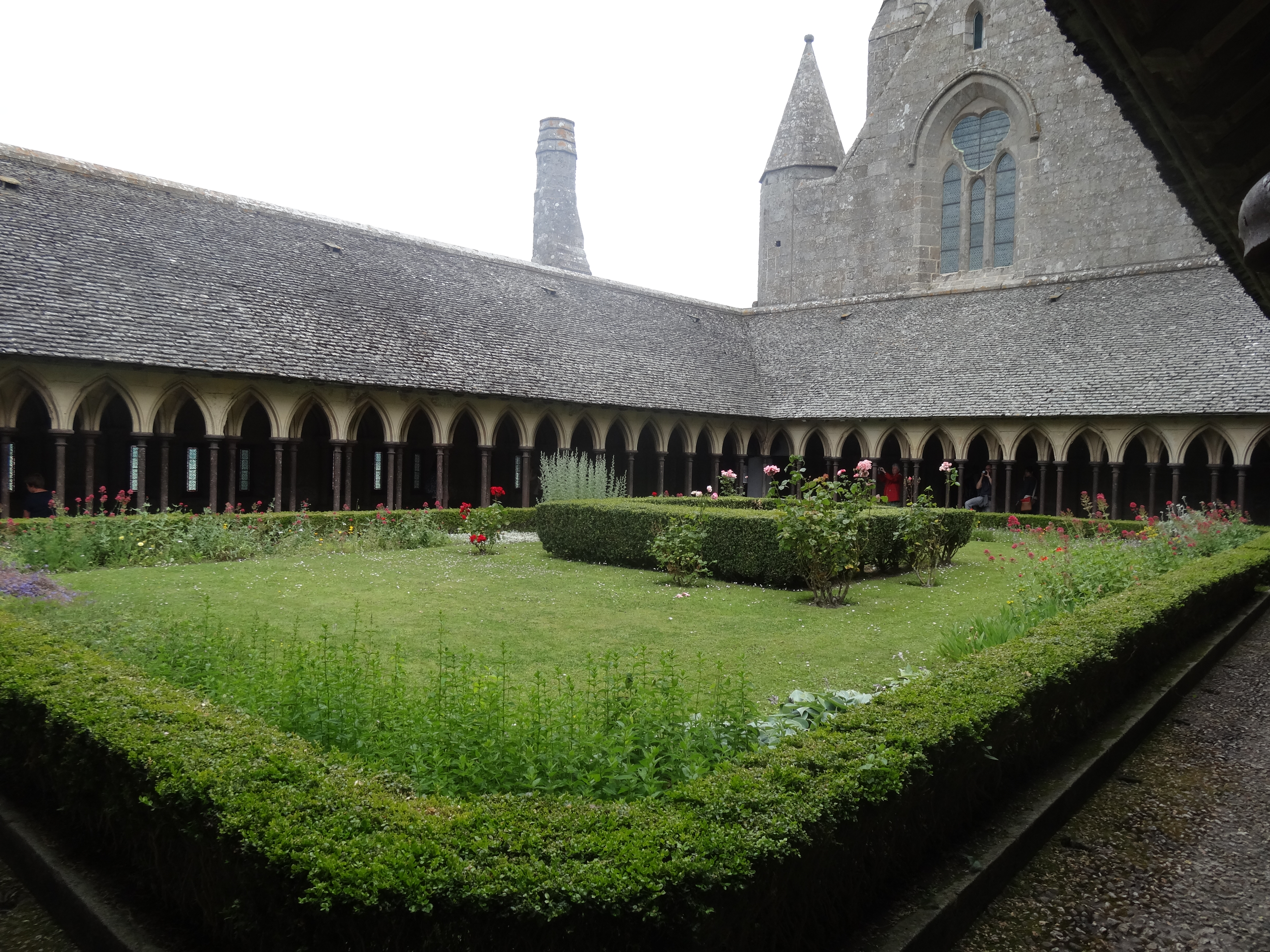 Cloister of Mont-Saint-Michel